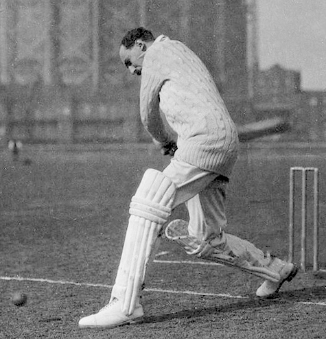 ENGLAND - AUGUST 06: A photograph of the cricketer Percy George Herbert Fender (1892-1985) at the Oval, London, taken by an unknown photographer in about 1925. Fender was captain of Surrey for twelve seasons as well as playing thirteen Test Matches for England. An excellent captain and a good all-rounder he once hit a century in 35 minutes.